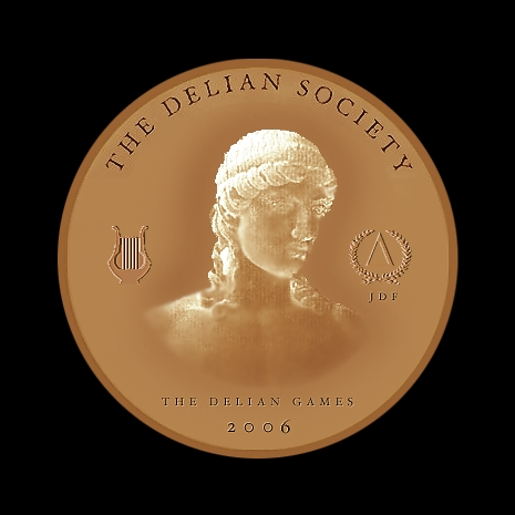 Delian games 2006 by Joe Dillon Ford, founder of the Delian Society, used with his permission by members (of which I am one) for pages providing information on the Delian Society (a society of tonal composers).